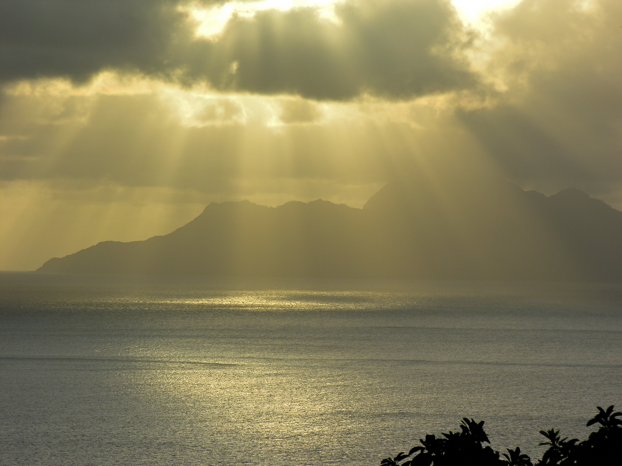 Seychelles, view from Mahe to Silhouette Island